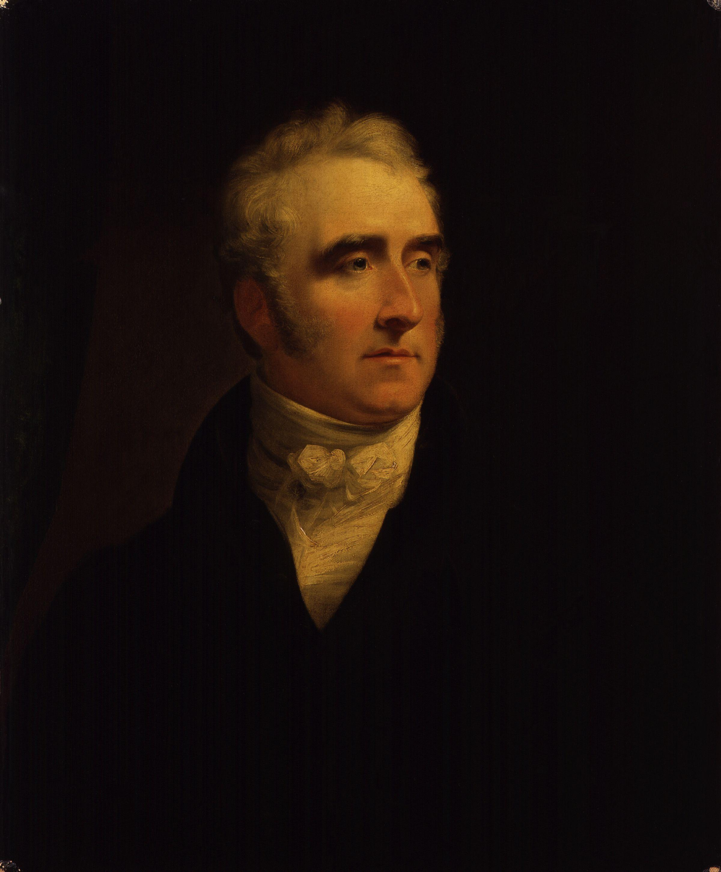 Sir William Bolland, by James Lonsdale (died 1839), given to the National Portrait Gallery, London in 1884. All images in this batch have been confirmed as author died before 1939 according to the official death date listed by the NPG.